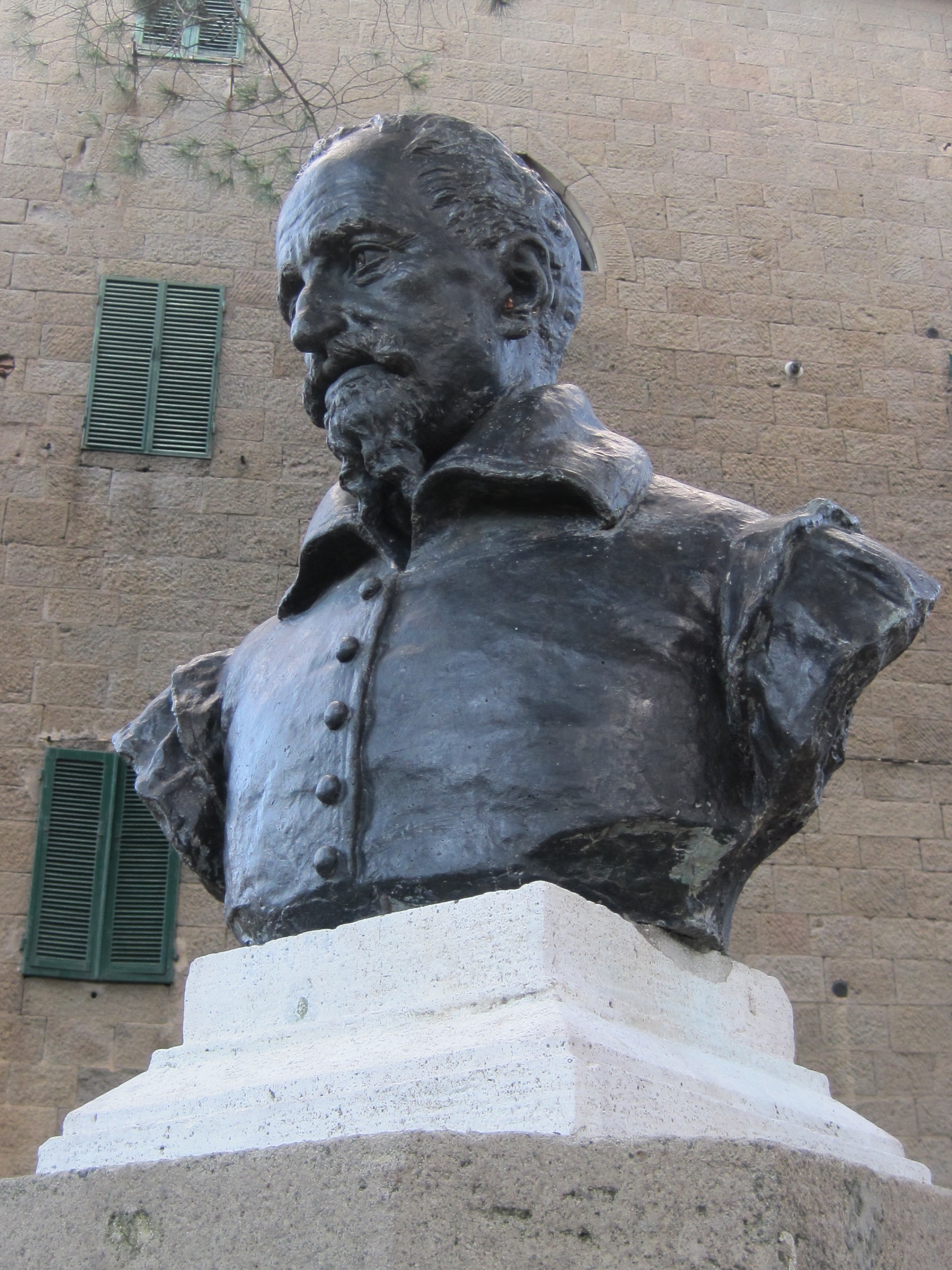 Giovan Domenico Peri, bronze monument in Arcidosso